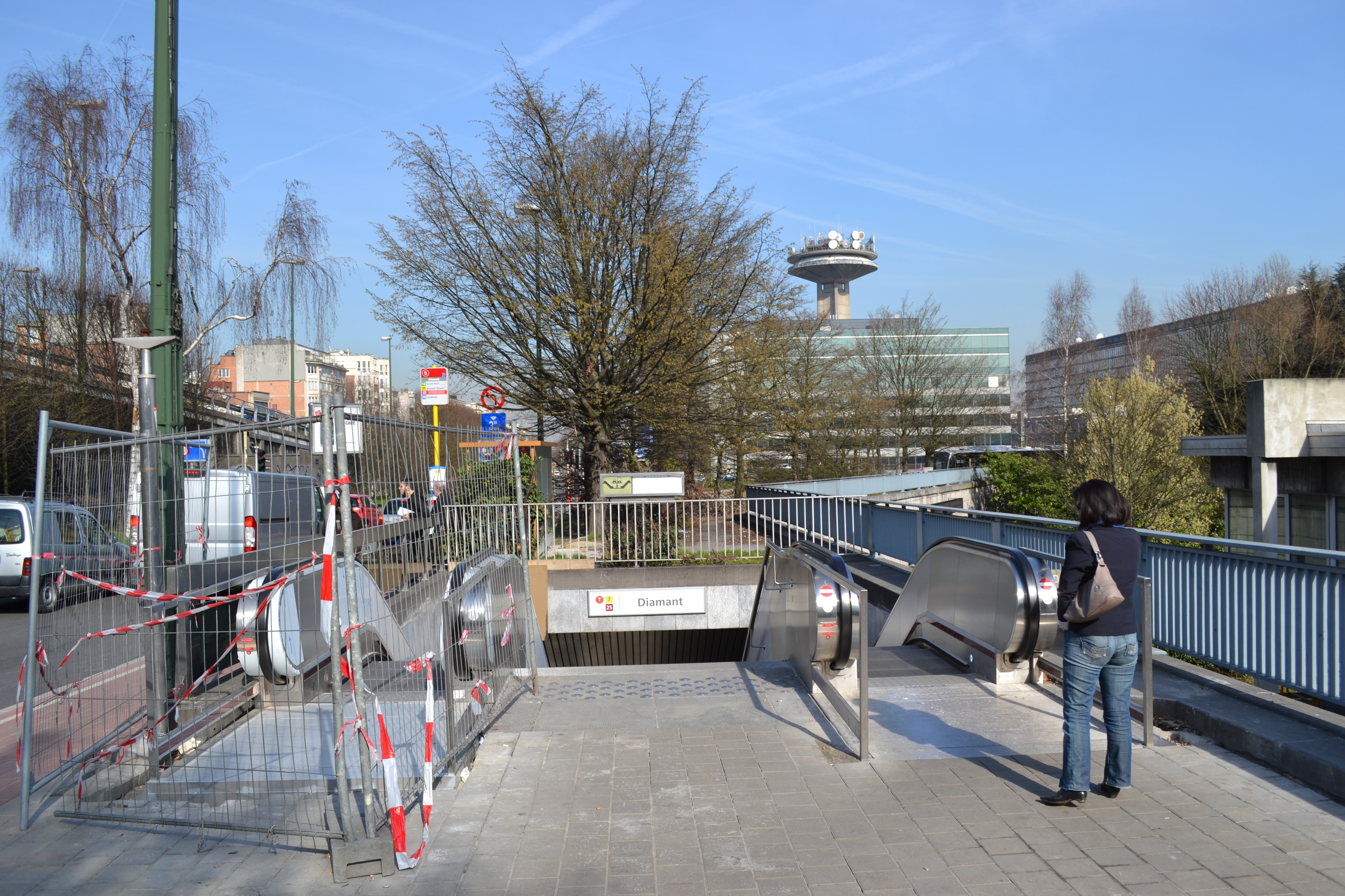 March 2011, installation of new escalators at Diamant metro station.